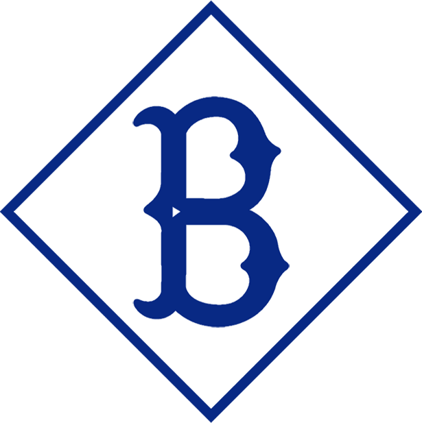 Dodgers logo 1912, fair use